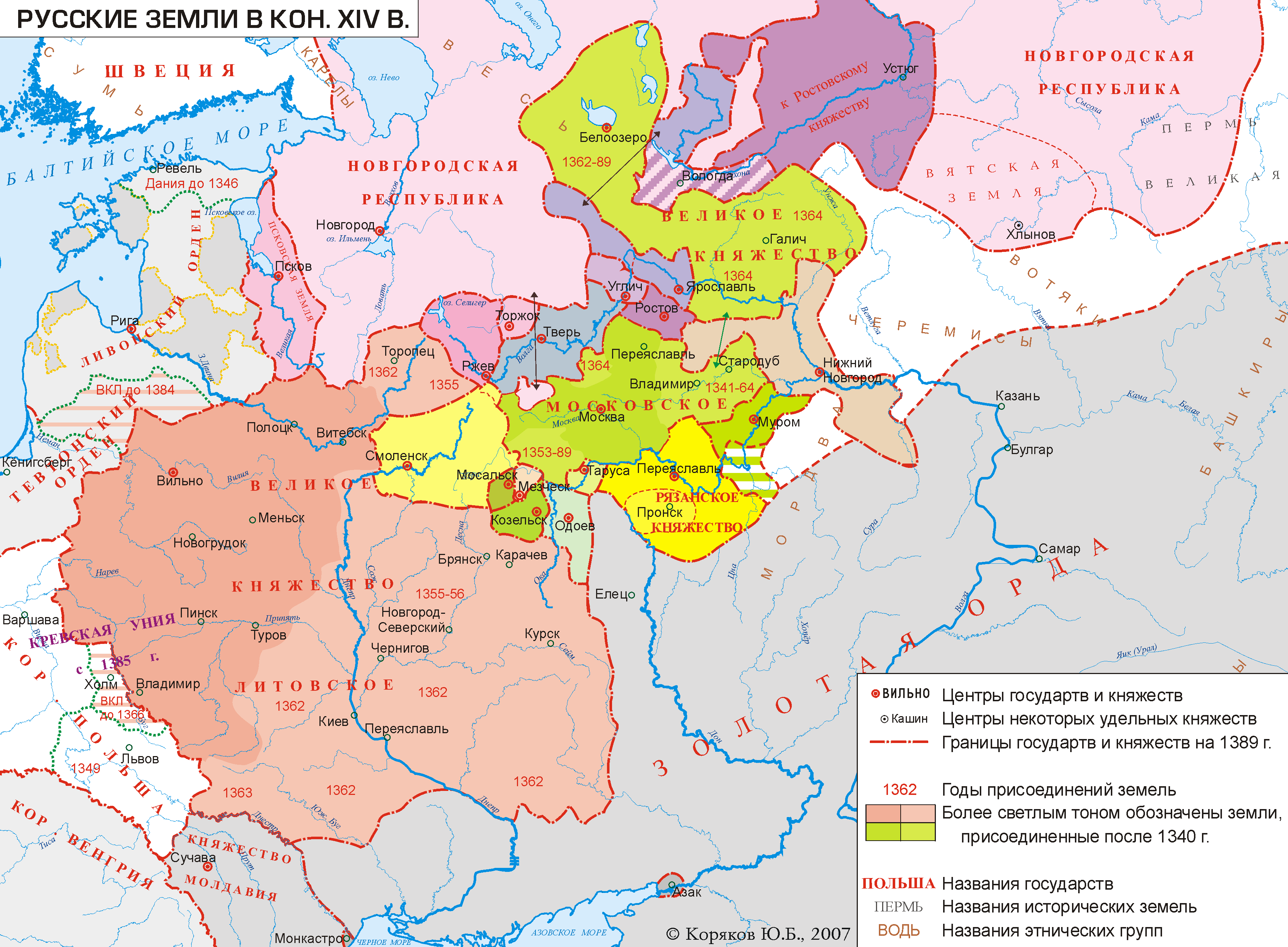 Rus' in 1389